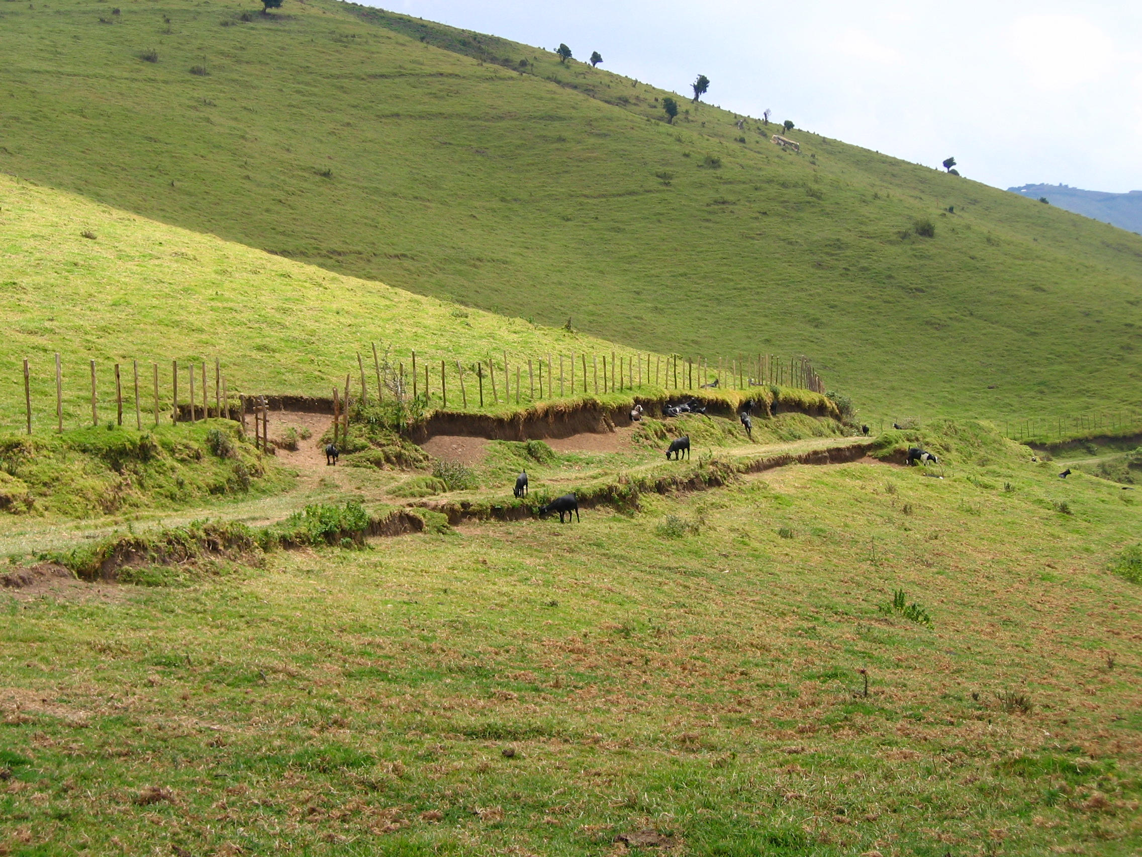 A hill in Rwanda